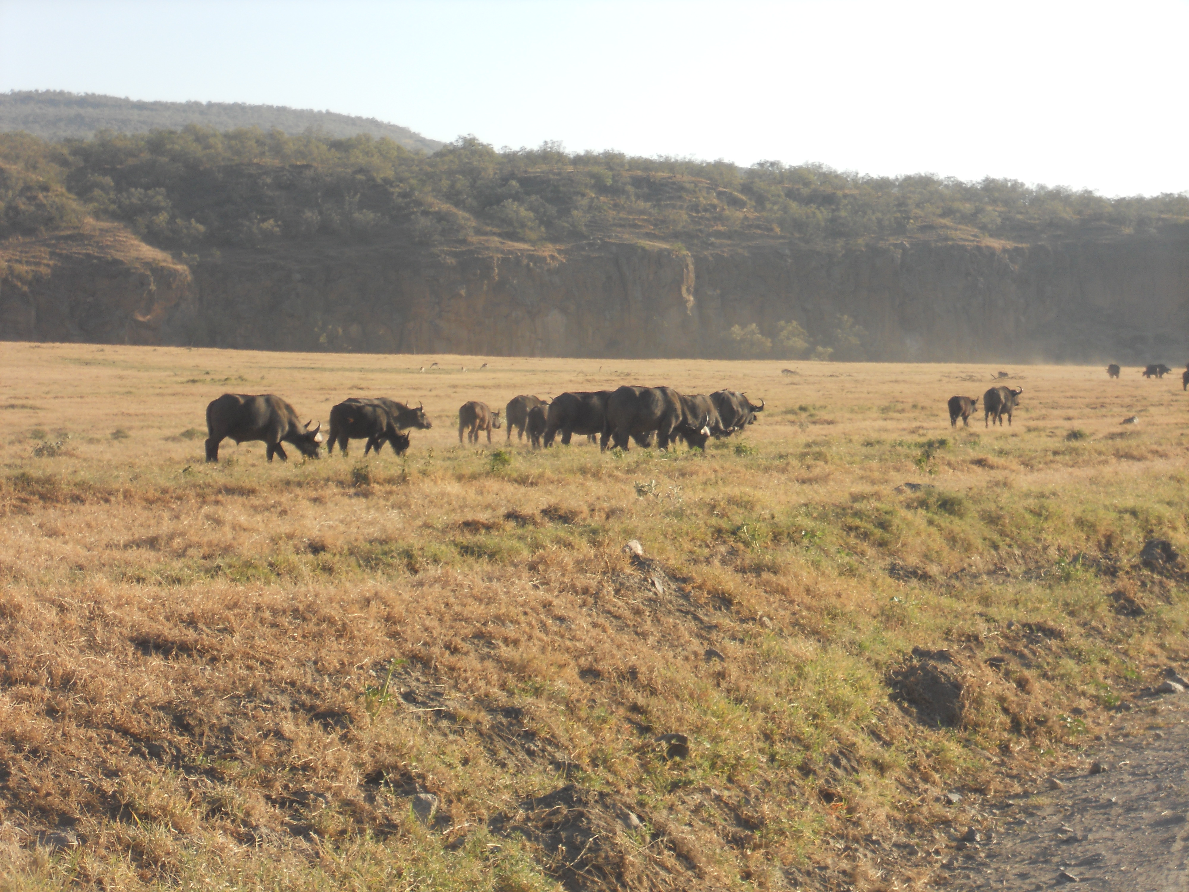 Buffalos in Hell's Gate NP